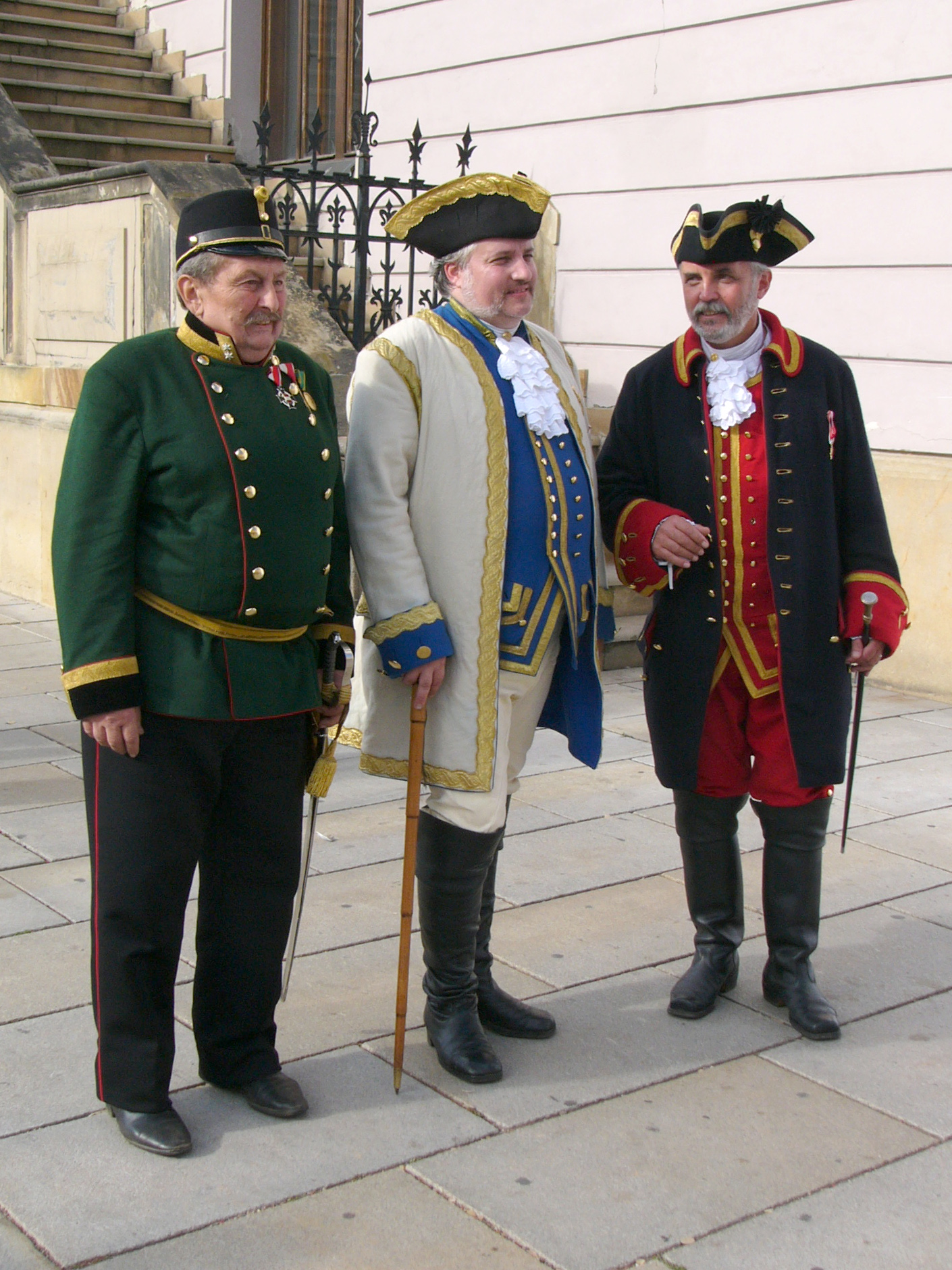 Austrian command from 19th century - reconstruction (historical reenactment).